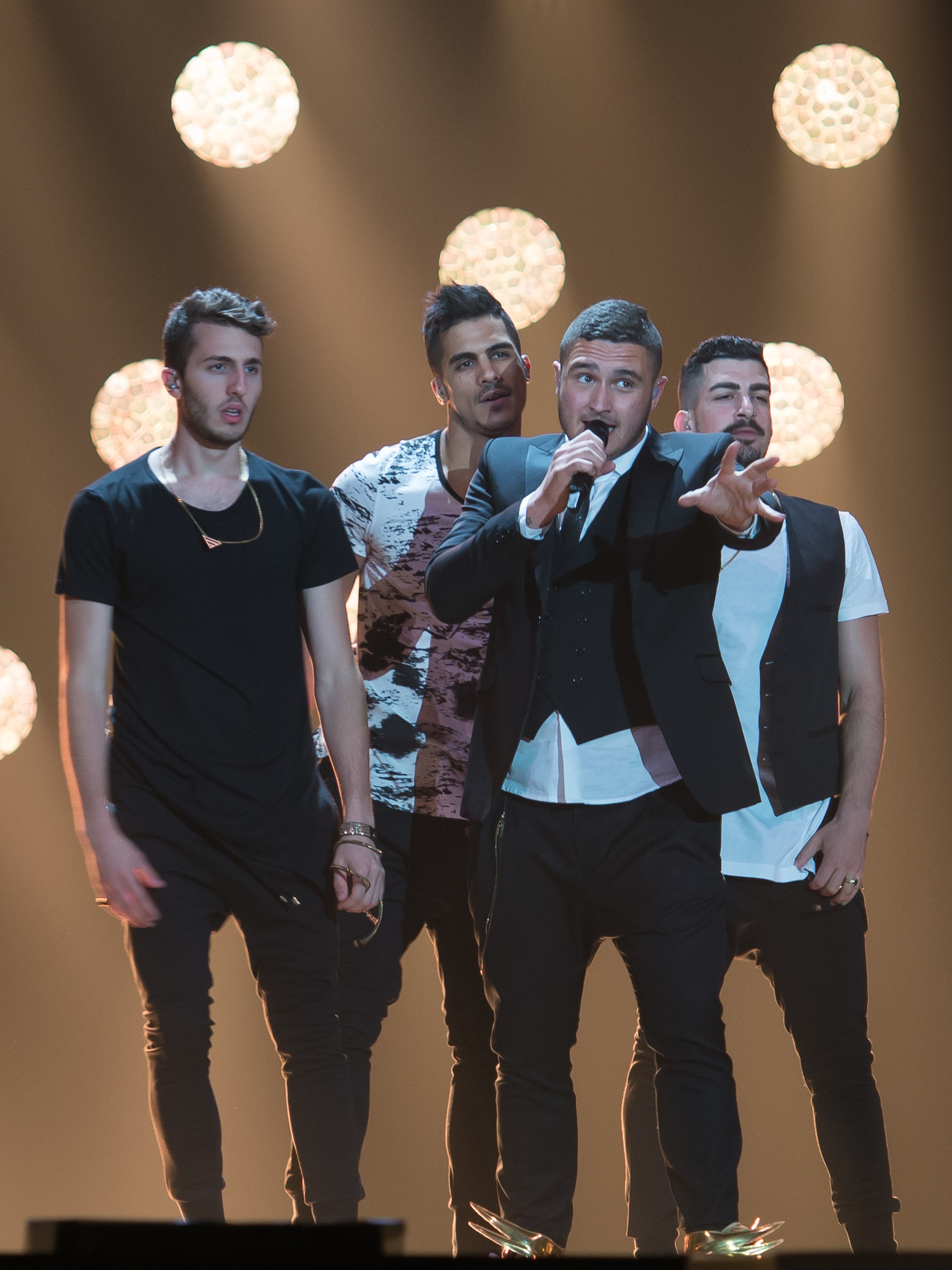 Eurovision Song Contest Vienna 2015: Nadav Guedj